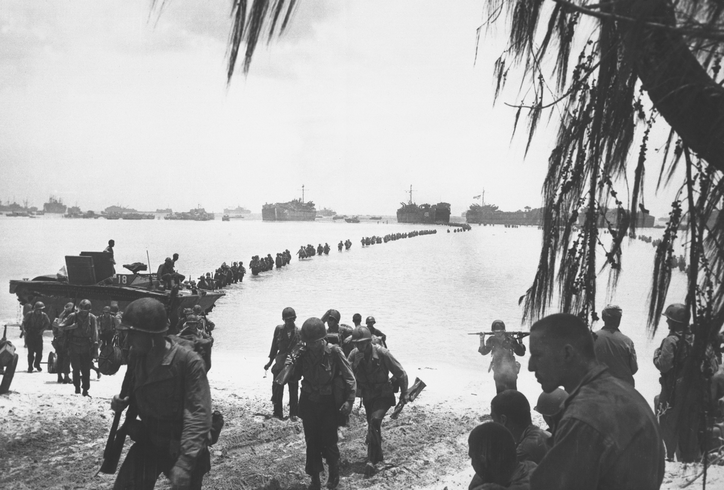 Army reinforcements disembarking from LST's form a graceful curve as they proceed across coral reef toward the beach. Saipan, ca. June/July 1944. Laudansky. (Army) Exact Date Shot Unknown NARA FILE #: 111-SC-191475 WAR & CONFLICT BOOK #: 1168